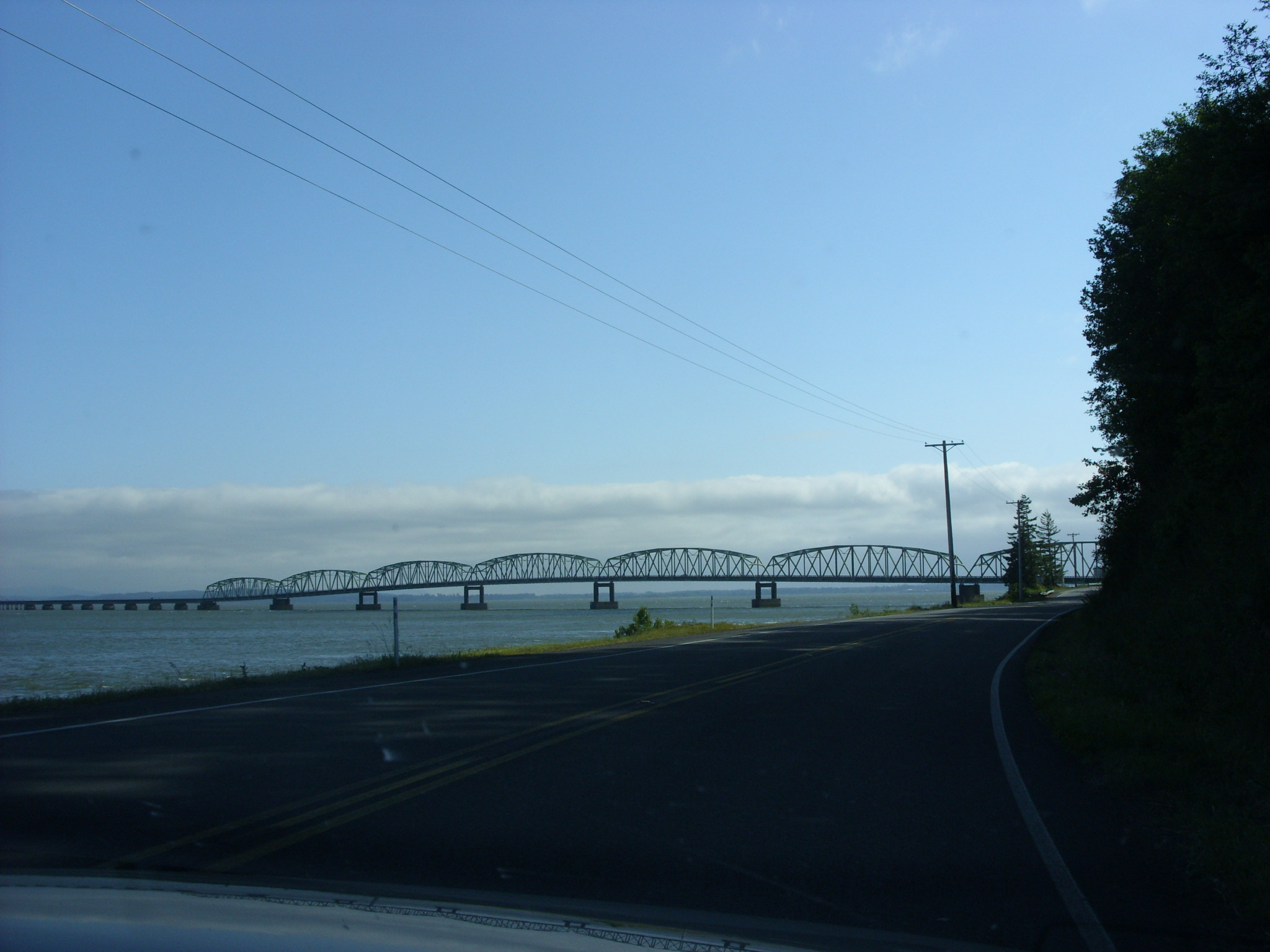 The Astoria – Megler Bridge viewed from Washington State Route 401 near Megler.